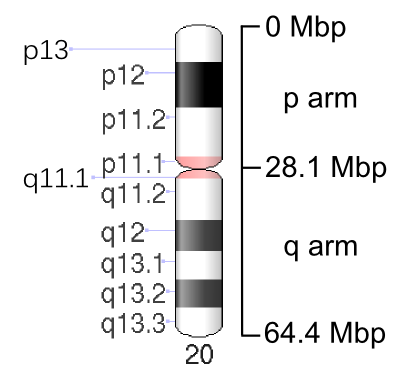 Ideogram of human chromosome 20. G-band, 550 bphs (bands per haploid set). Black and gray: Giemsa positive. Red: Centromere. Light blue: Variable region. Dark blue: Stalk. Mbp: Mega base pairs.